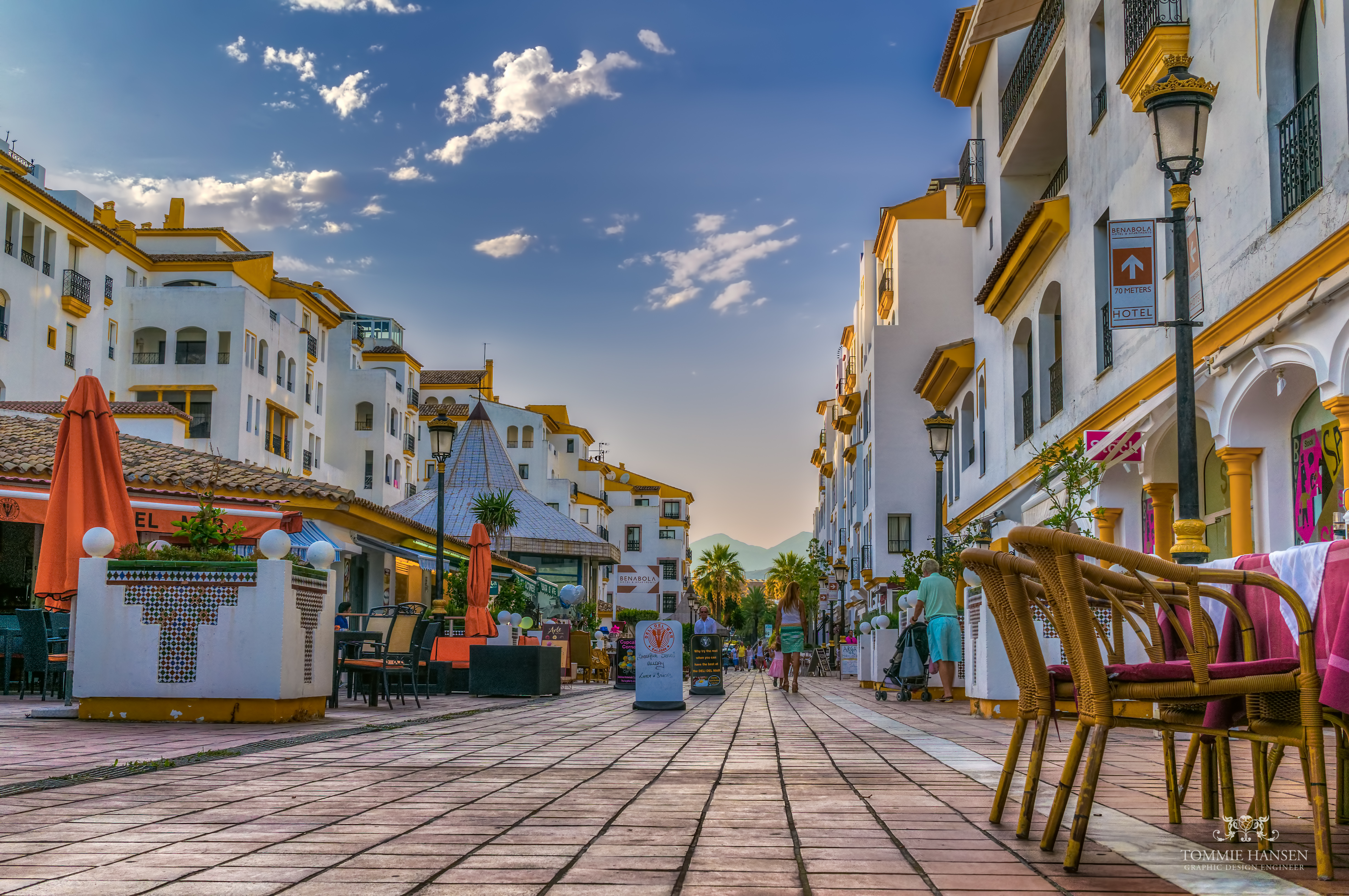 Street in Puerto Banús, Marbella (Spain).